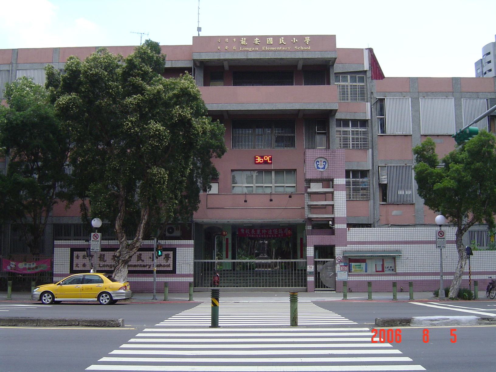 The main entrance of Taipei Municipal Long An Elementary School.